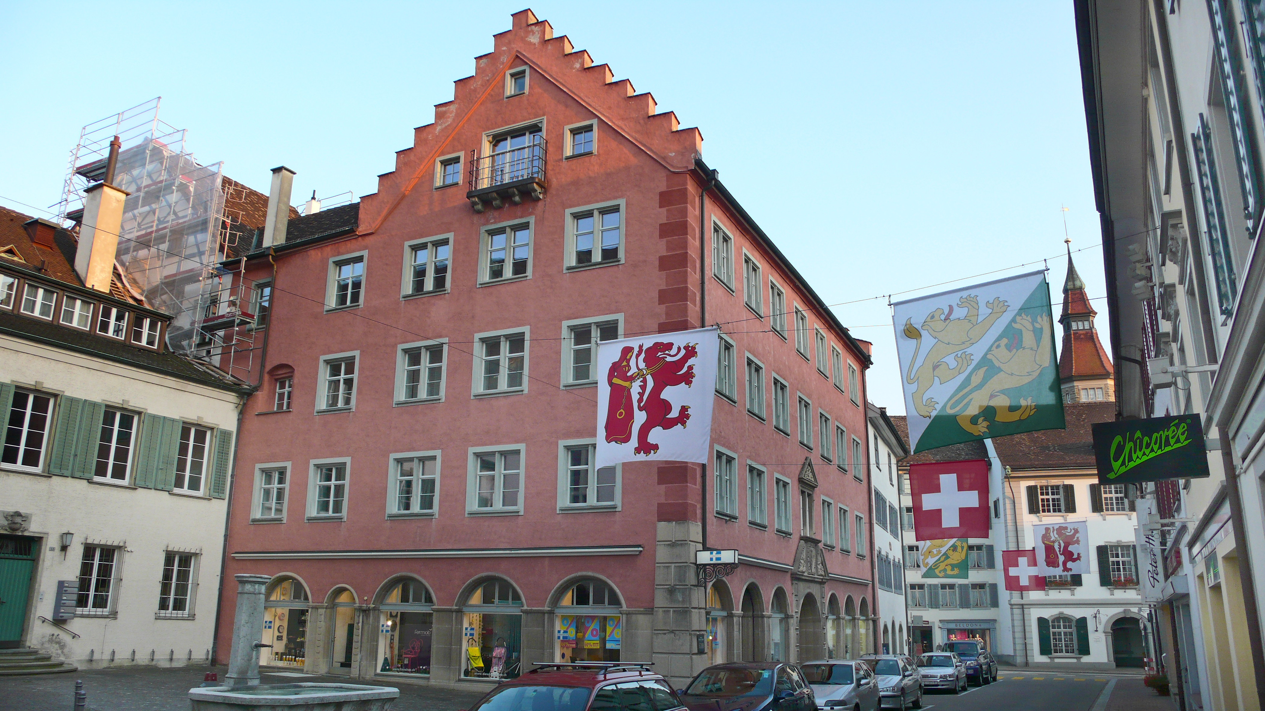 Haus zum Schwert in Frauenfeld, Switzerland